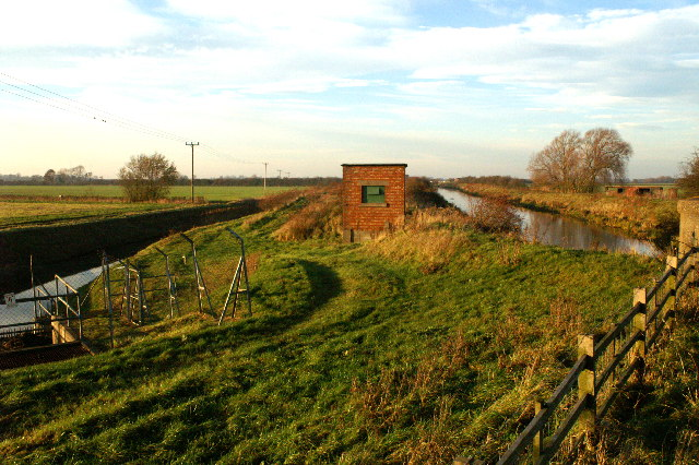 Pump Station on River Till.